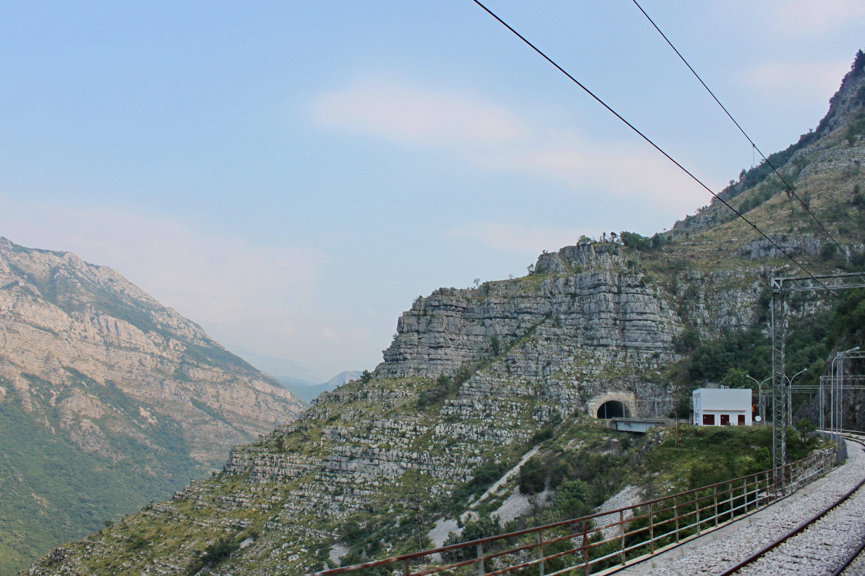 Views of Montenegro from the train on the Belgrade–Bar railway